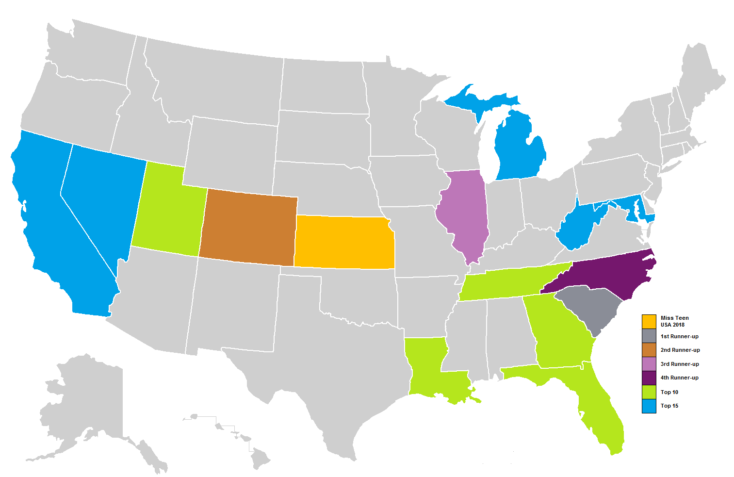 Results by each U.S state and the District of Columbia on the Miss Teen USA 2019 competition.